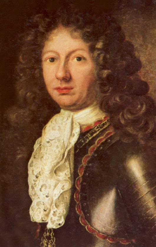 Portrait of Manuel Filiberto de Saboya-Carignano (1628-1709)